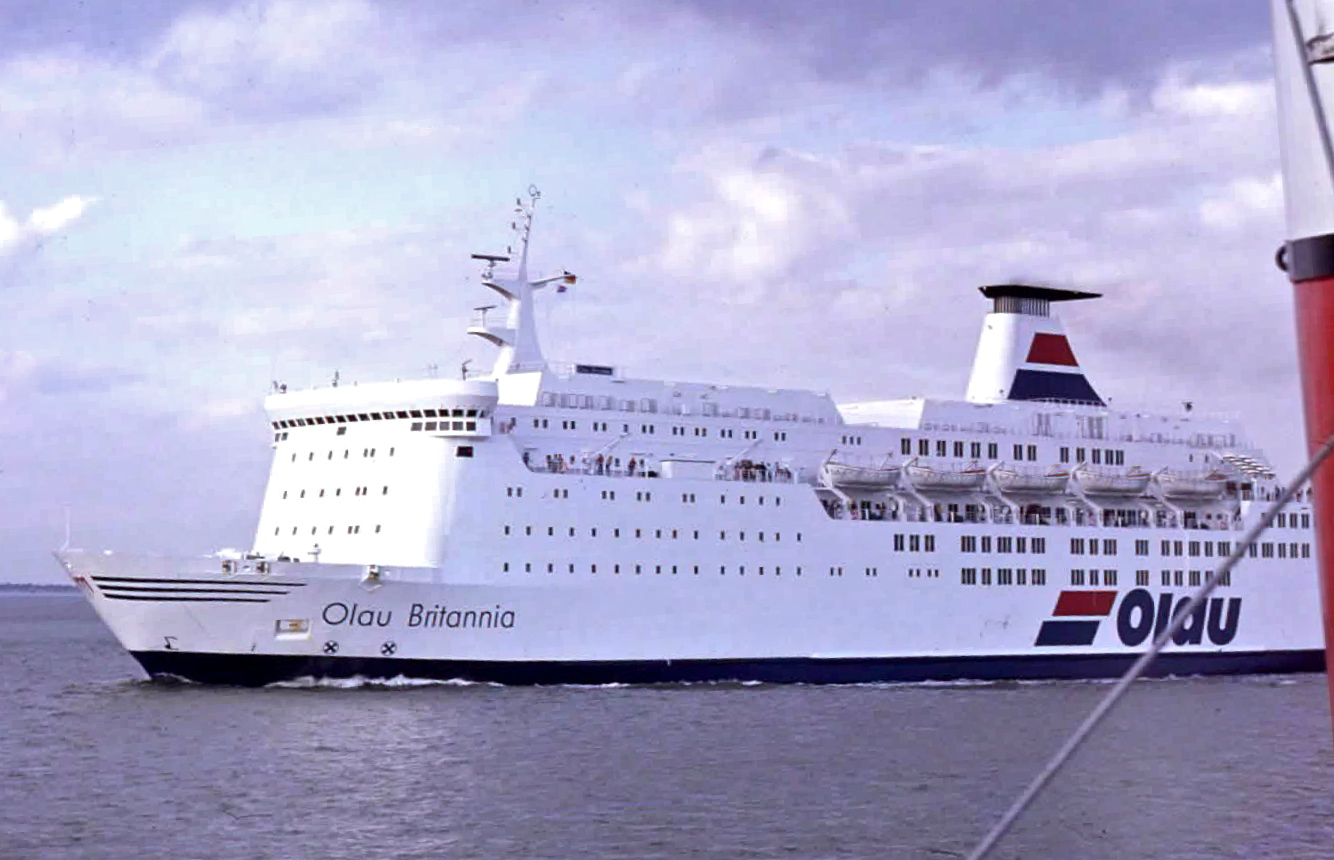 MV Olau Britannia seen from PS Waverley near Sheerness